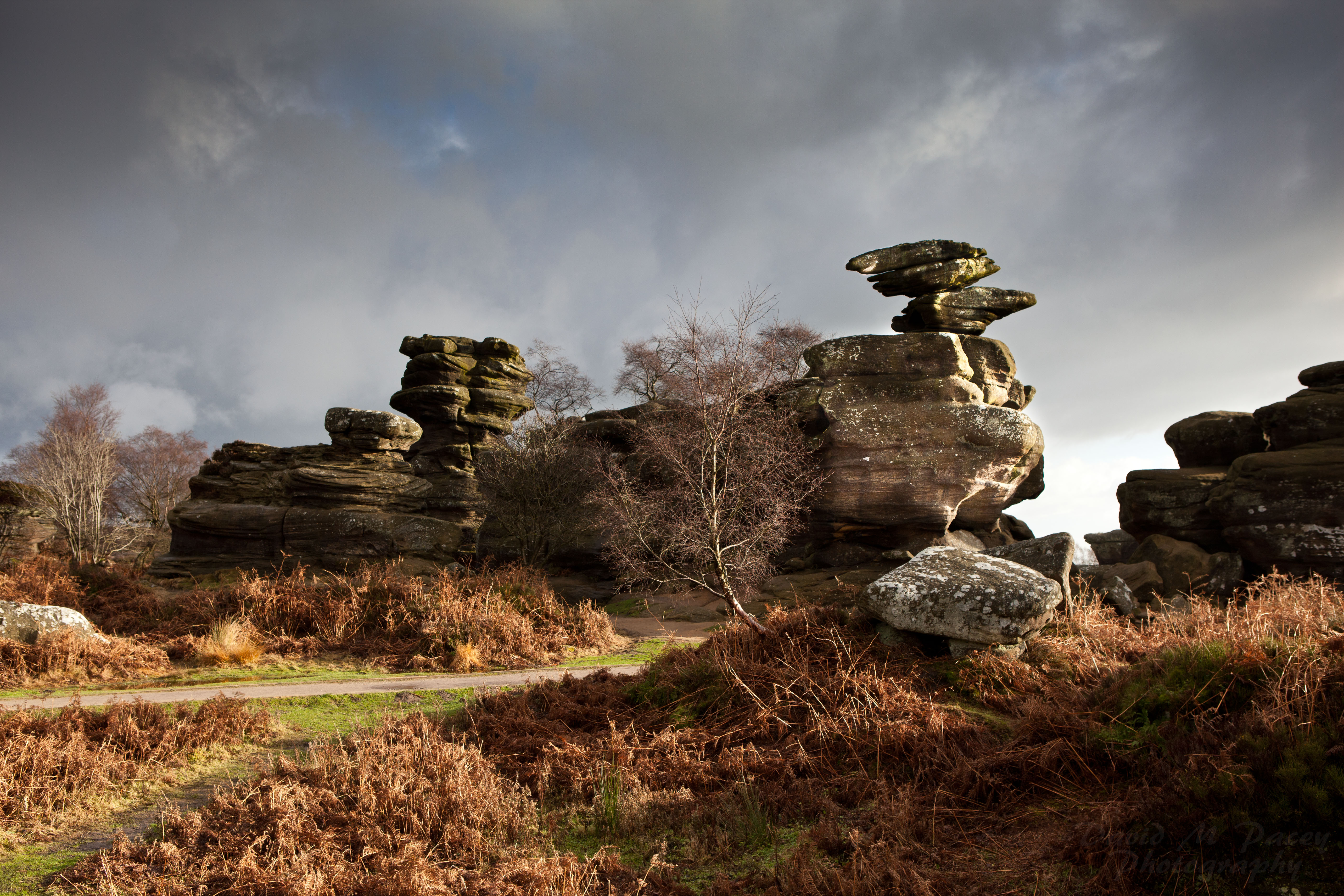 Brimham Rocks, North Yorkshire, England. This is a Site of Special Scientific Interest, designated for its geological and biological significance.